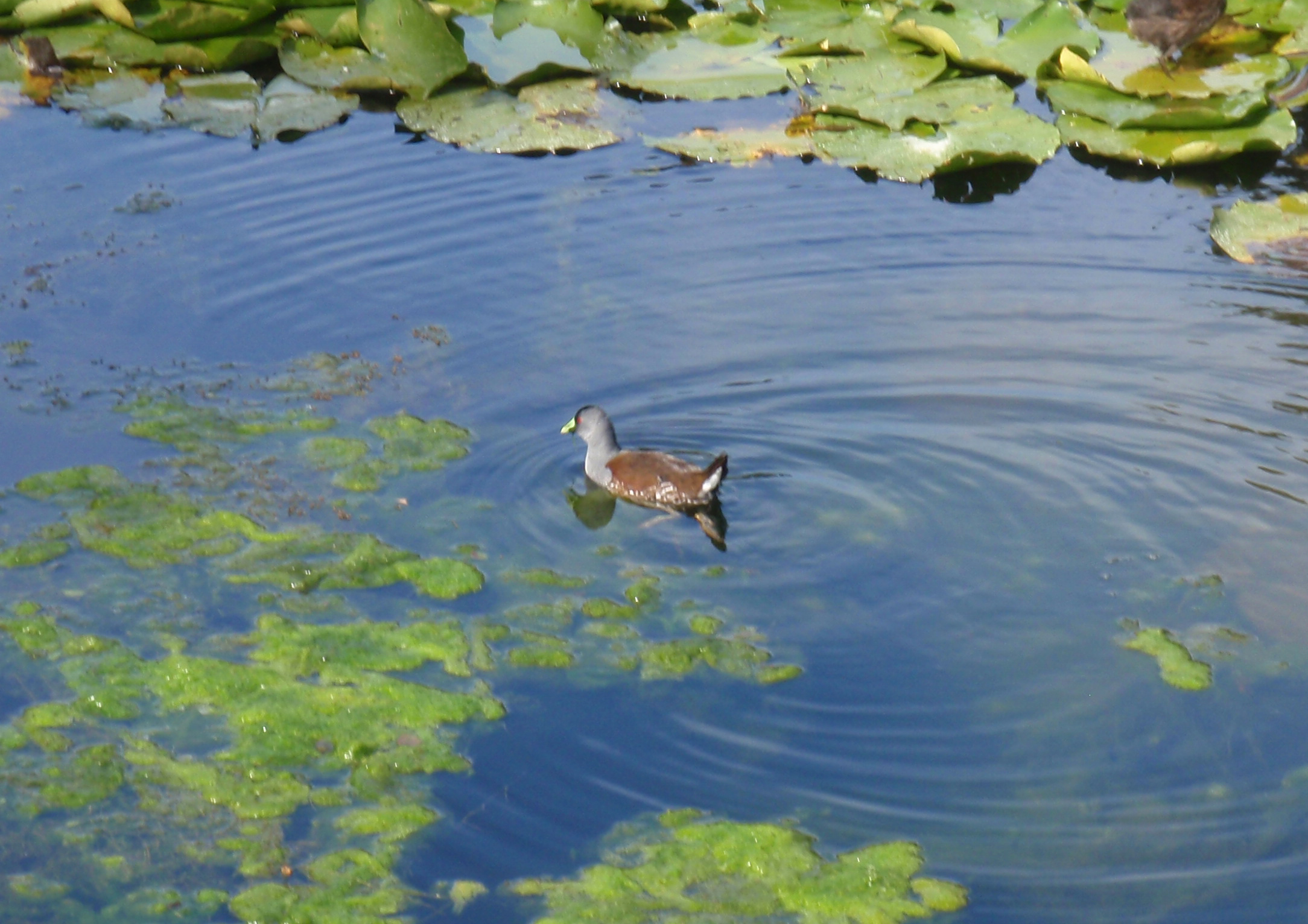 An adult Spot-flanked Gallinule swimming in a pond at the National Botanical Gardens in Vina del Mar, Chile.